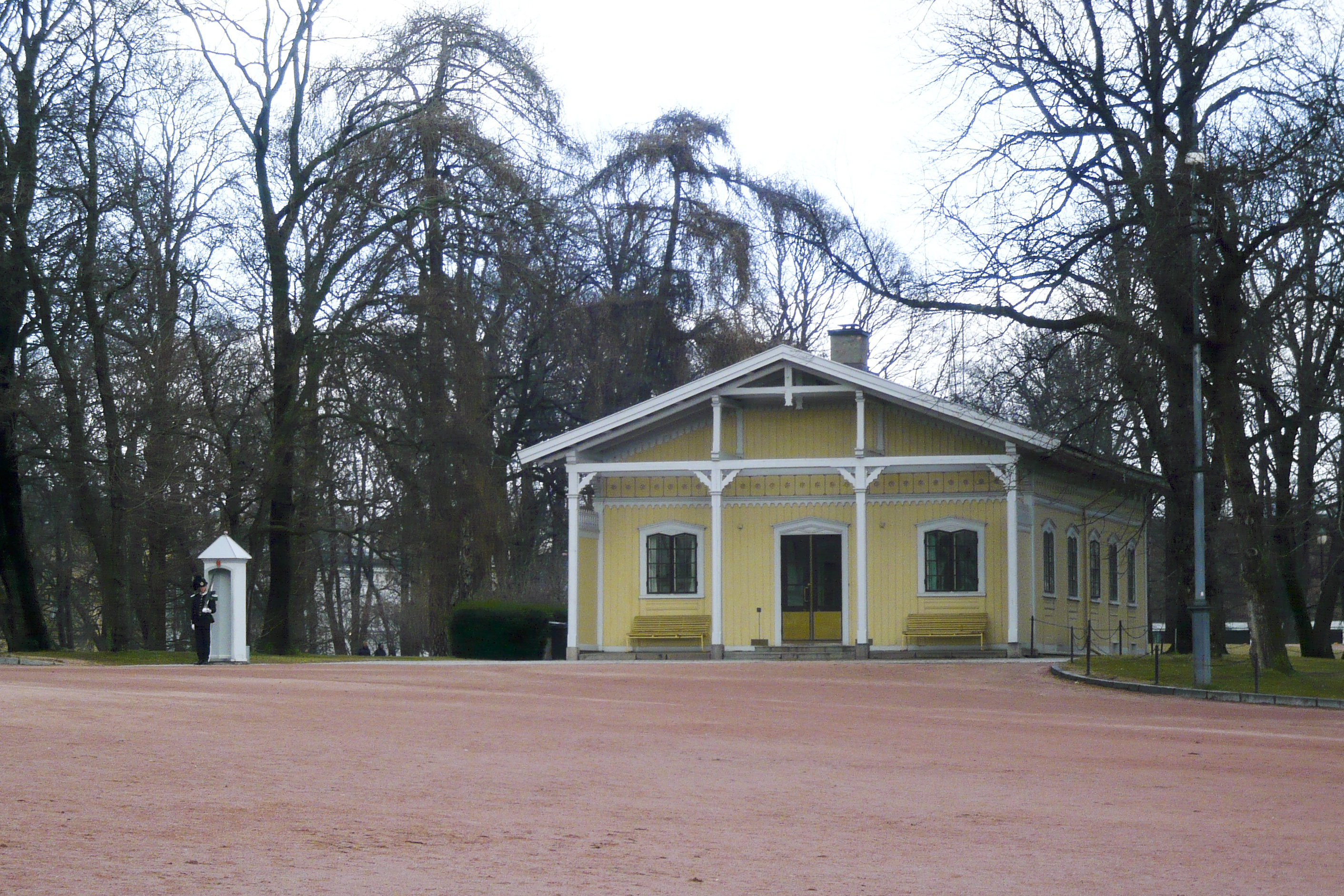 Guard's Quarters at Royal Palace